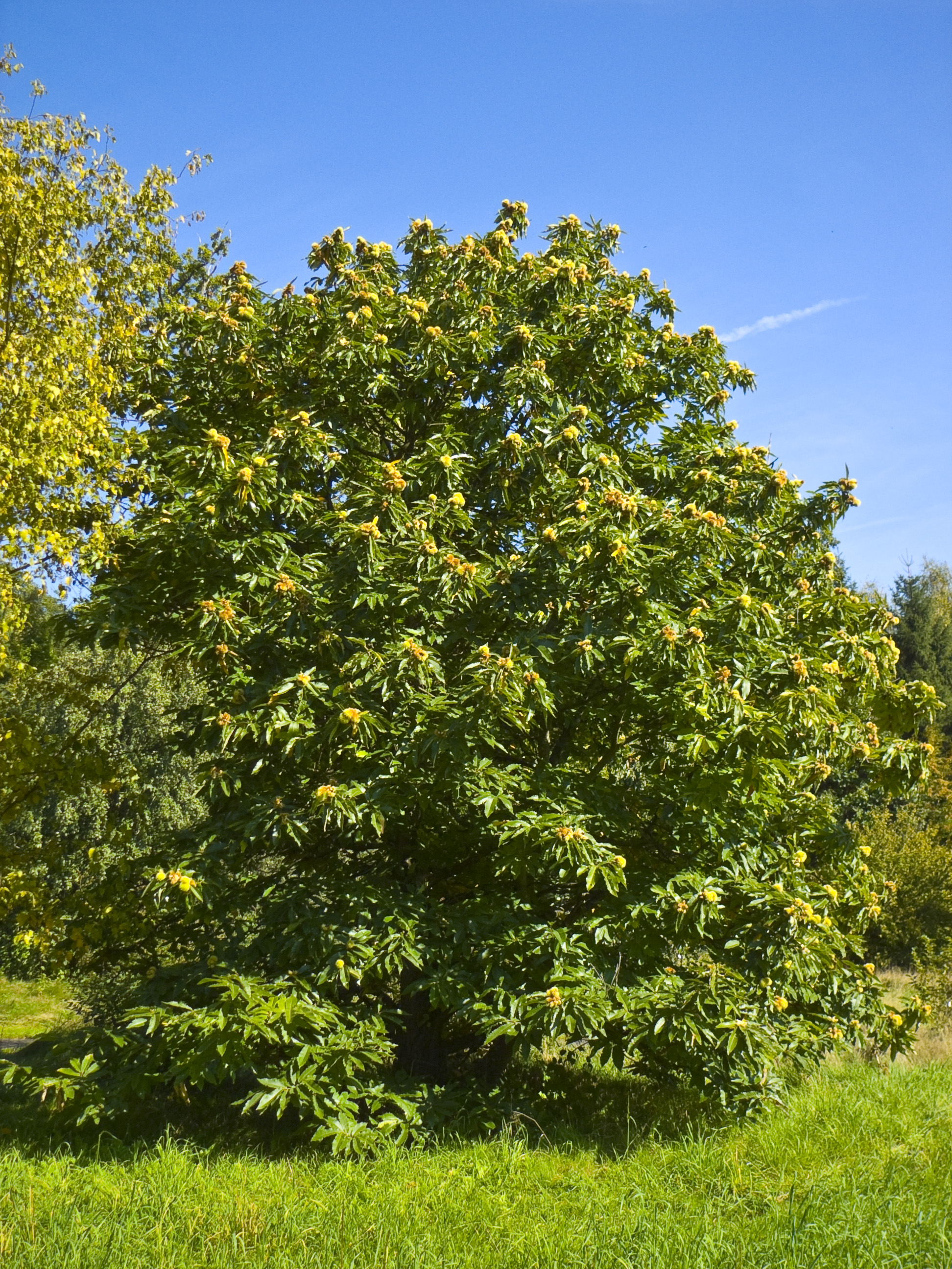 Sweet Chestnut (Castanea sativa) in the New Botanical Garden Marburg, Hesse, Germany